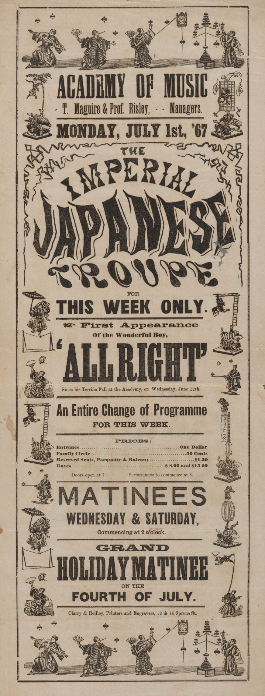 Handbill advertisement for The Imperial Japanese Troupe at the Academy of Music (1867 July 1). Playbills and Programs from New York City Theaters (TCS 65), Harvard Theatre Collection, Houghton Library, Harvard University.